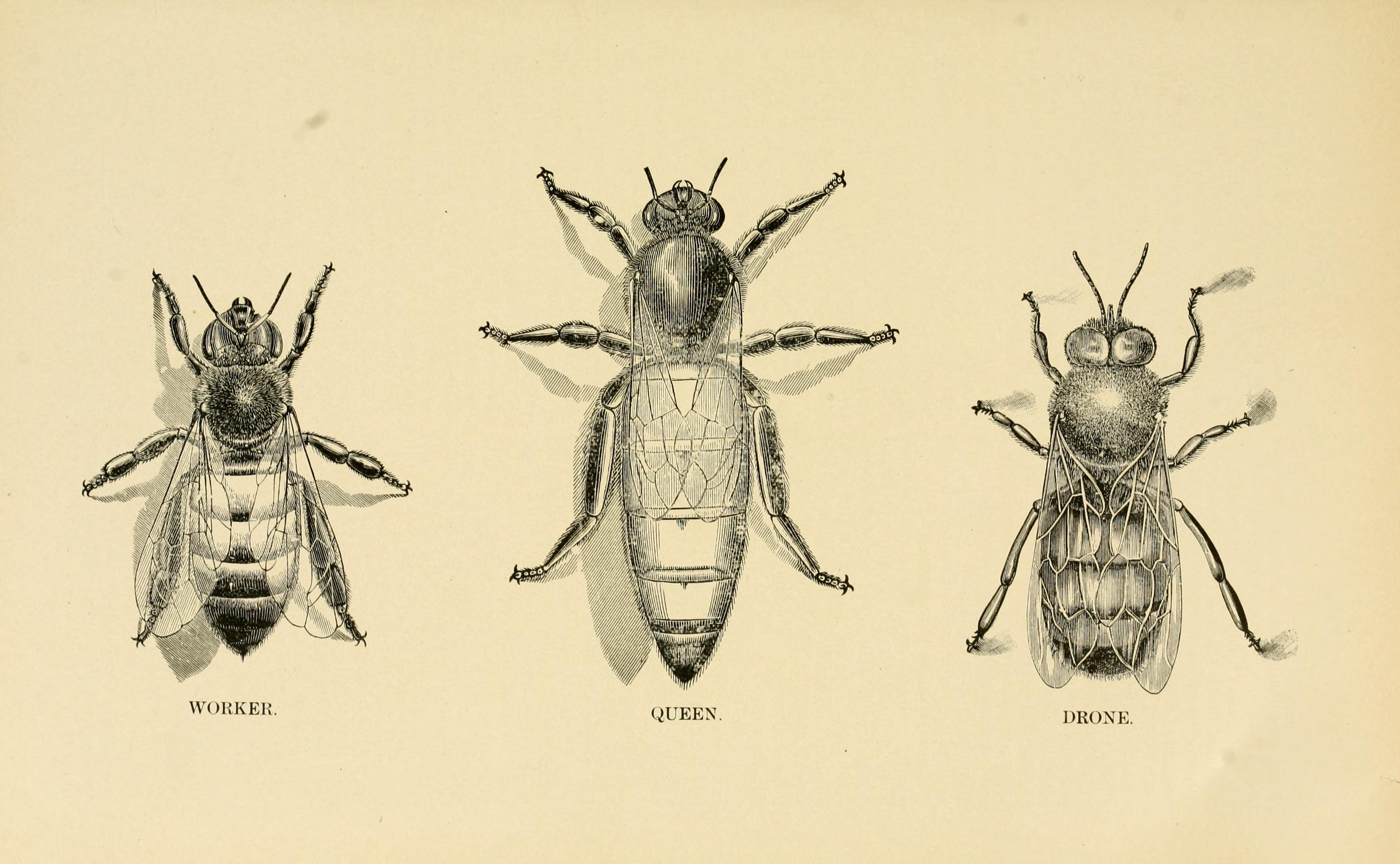 The ABC and XYZ of bee culture; a cyclopedia of everything pertaining to the care of the honey-bee; bees, hives, honey, implements, honey-plants, etc. ... By A.I. Root and E.R. Root.